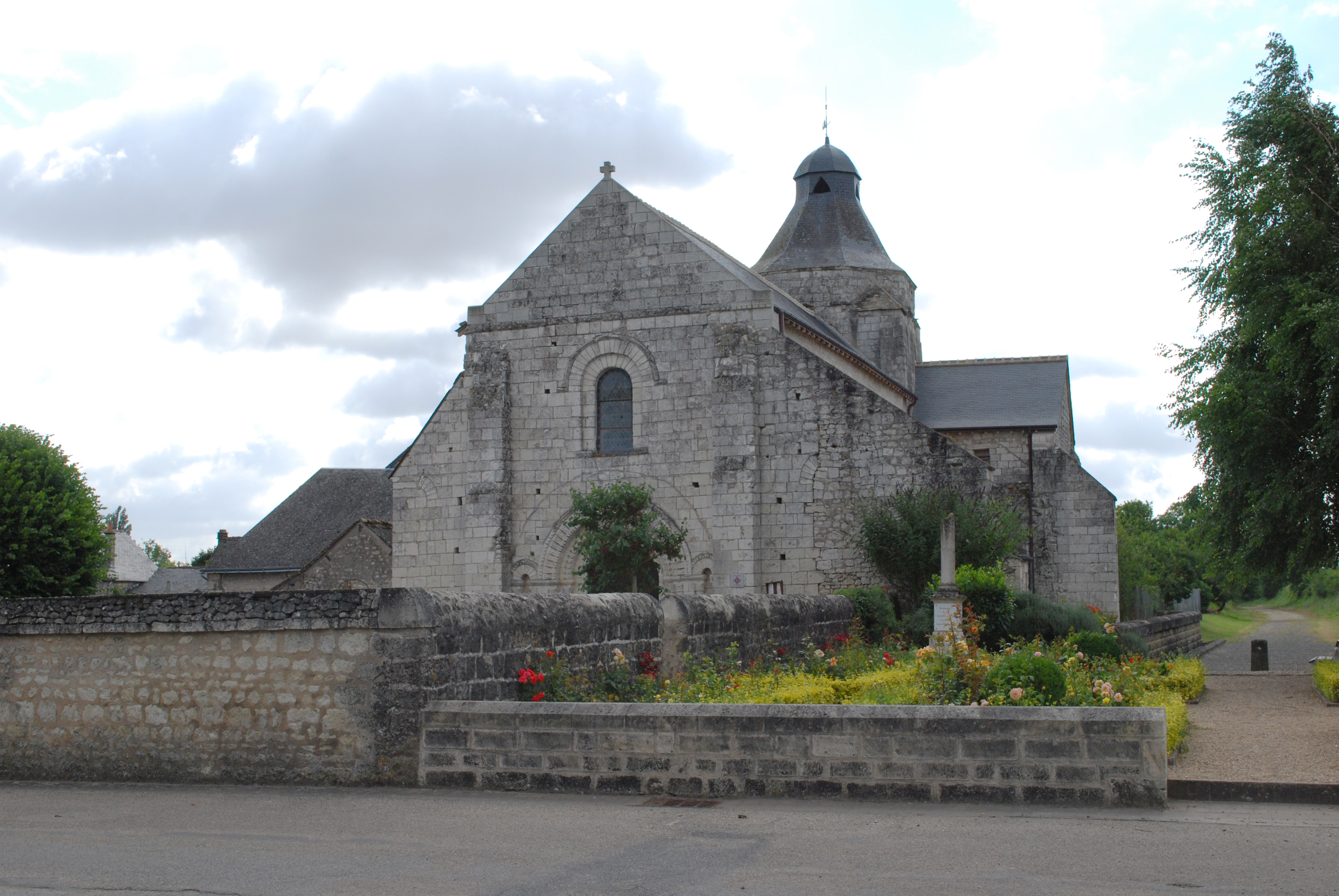 Romanesque church of Saint Nicholas, Tavant, France. Photograph by Lieven Smits using a Nikon D60 camera at 400 ISO, 1/400 s through an AF-S Nikkor 18-55mm lens at 28mm f/10. Contrast enhanced in Adobe Photoshop 4.0.